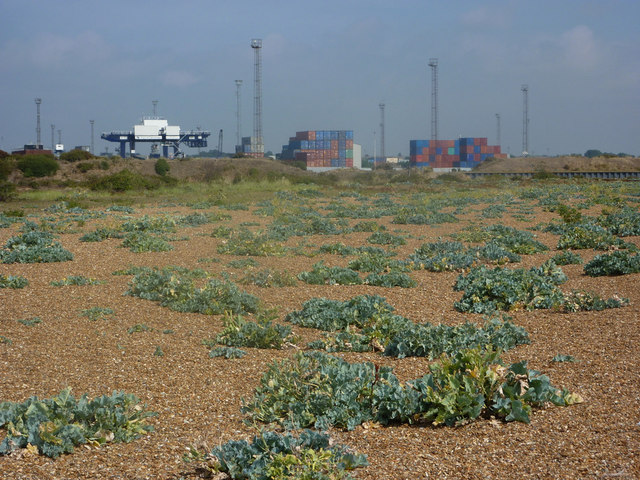 Shingle beach and sea kale Near Landguard fort, looking towards containers at one corner of the port of Felixstowe.